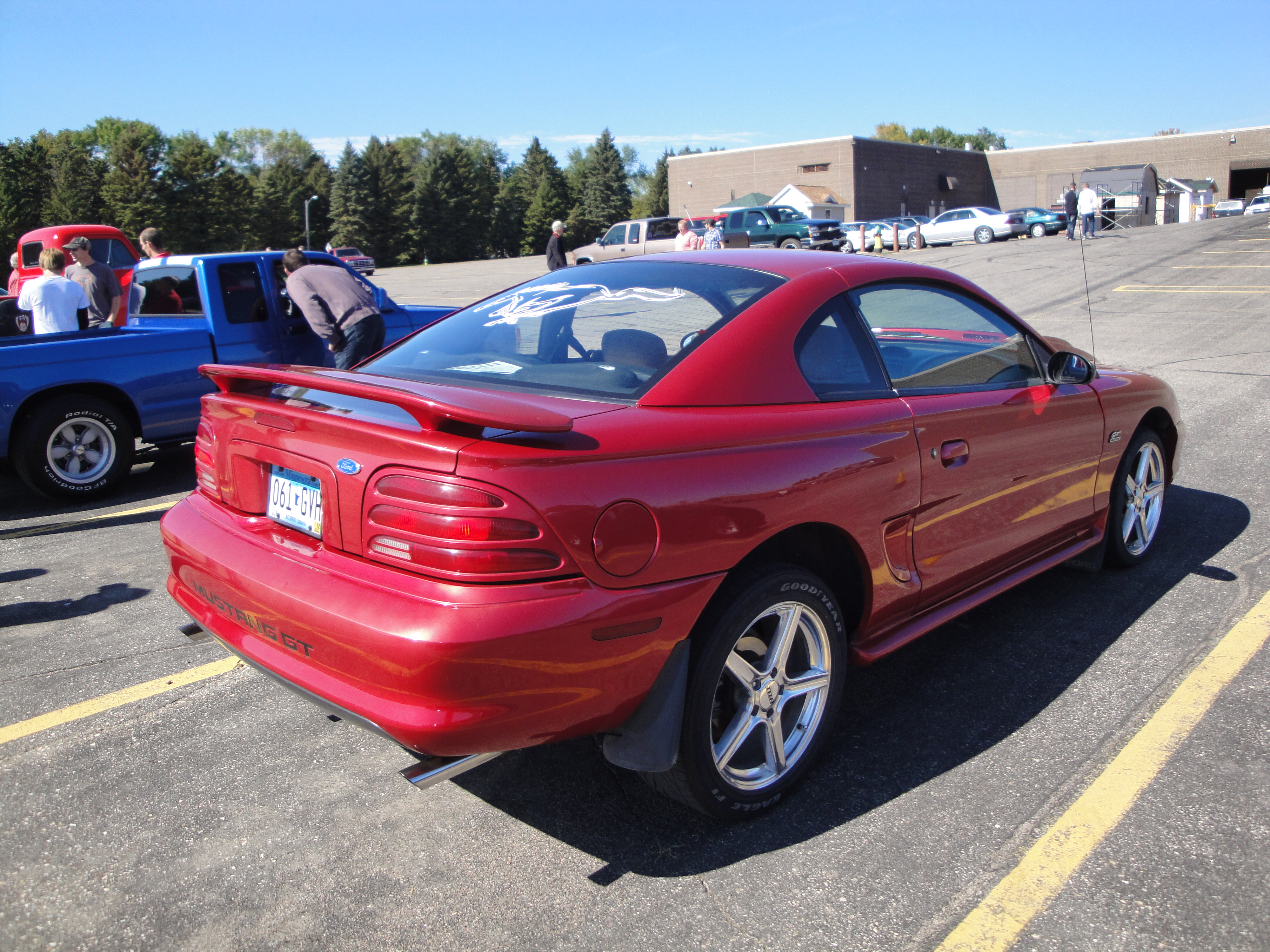 I toured the campus during Auto Technology Departments Car Show 25 years after I had graduated from the school myself.